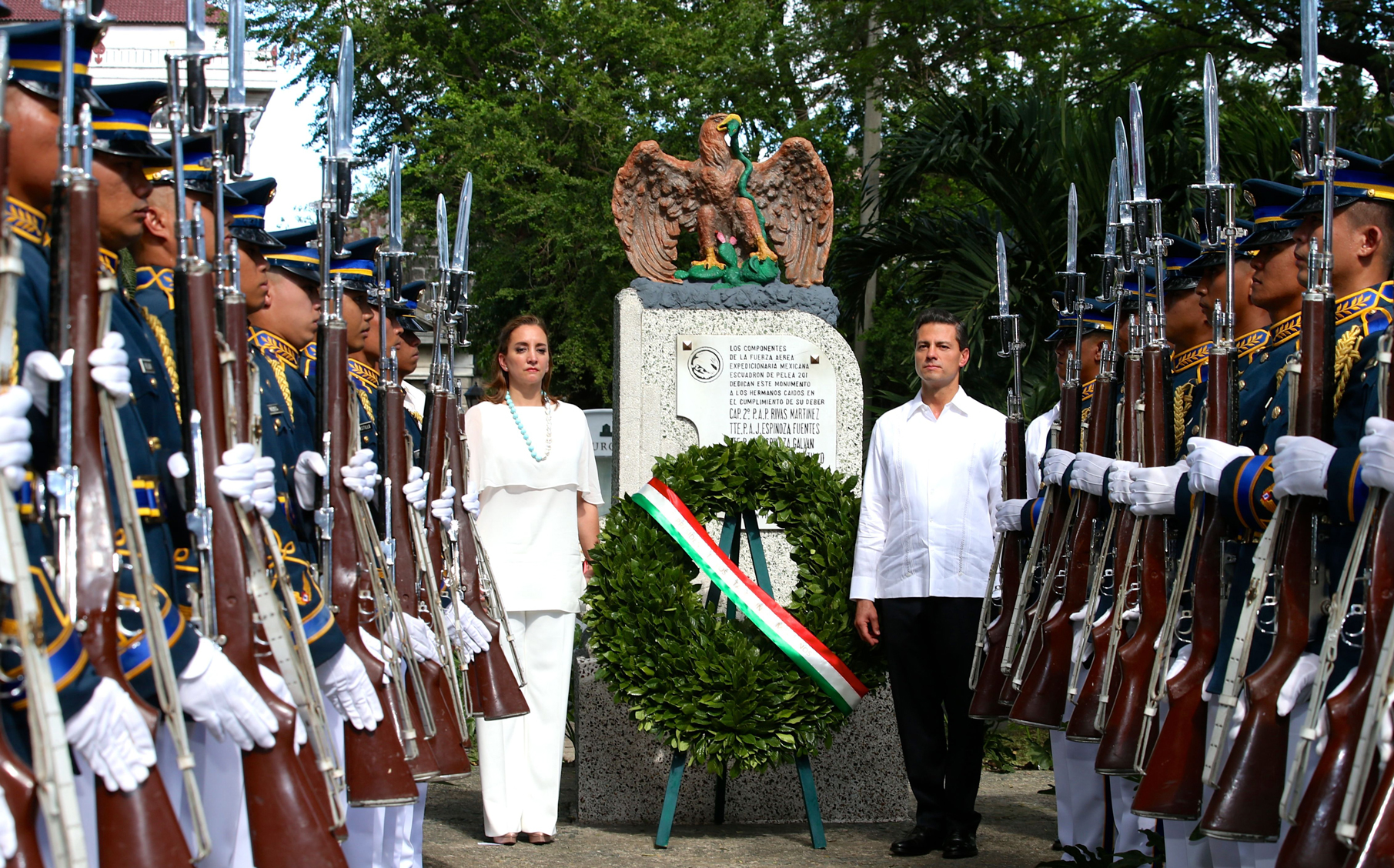 Visita de Estado a Filipinas